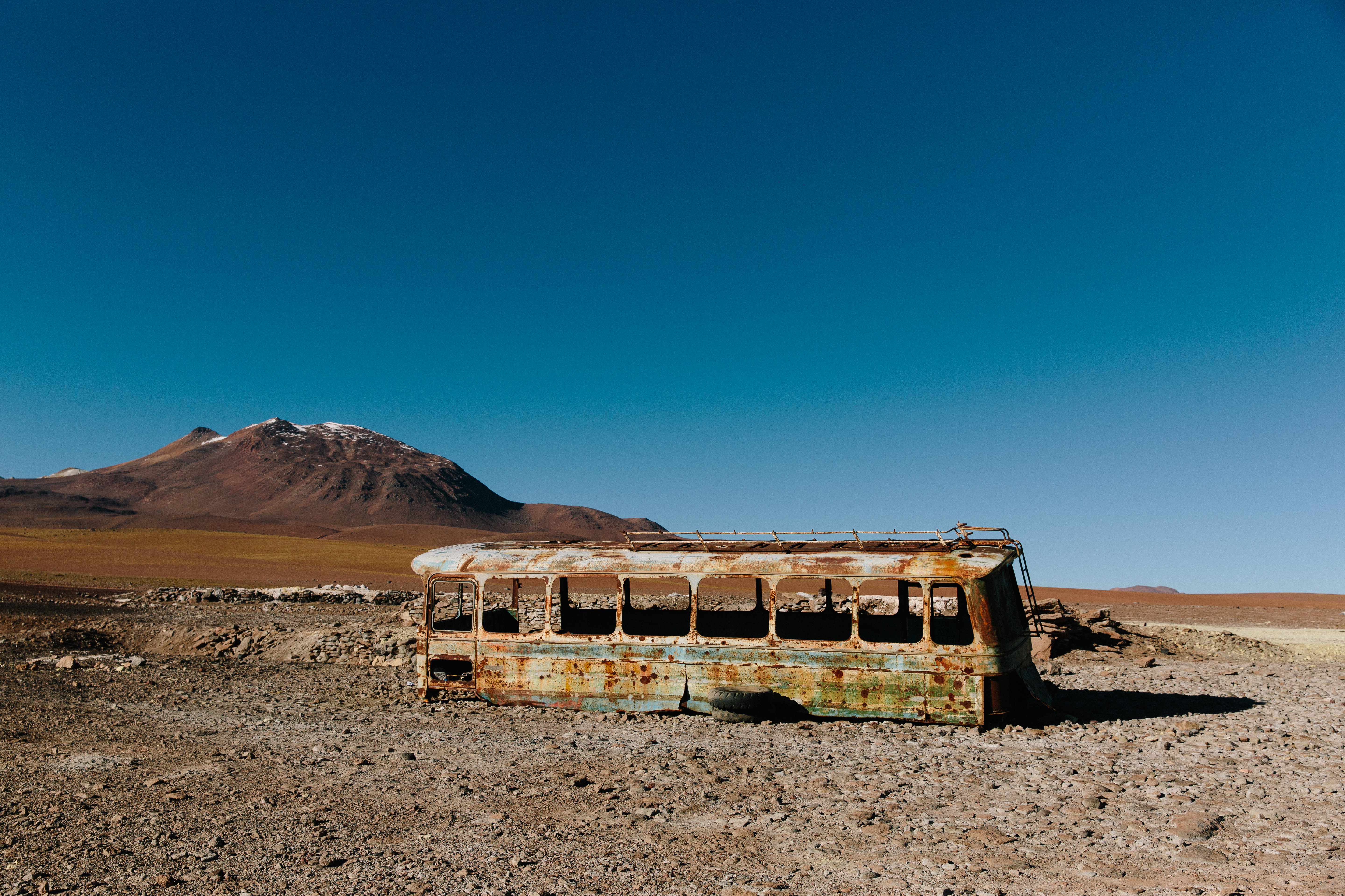 An abandoned bus in the Atacama desert outside of the oasis town of San Pedro de Atacama